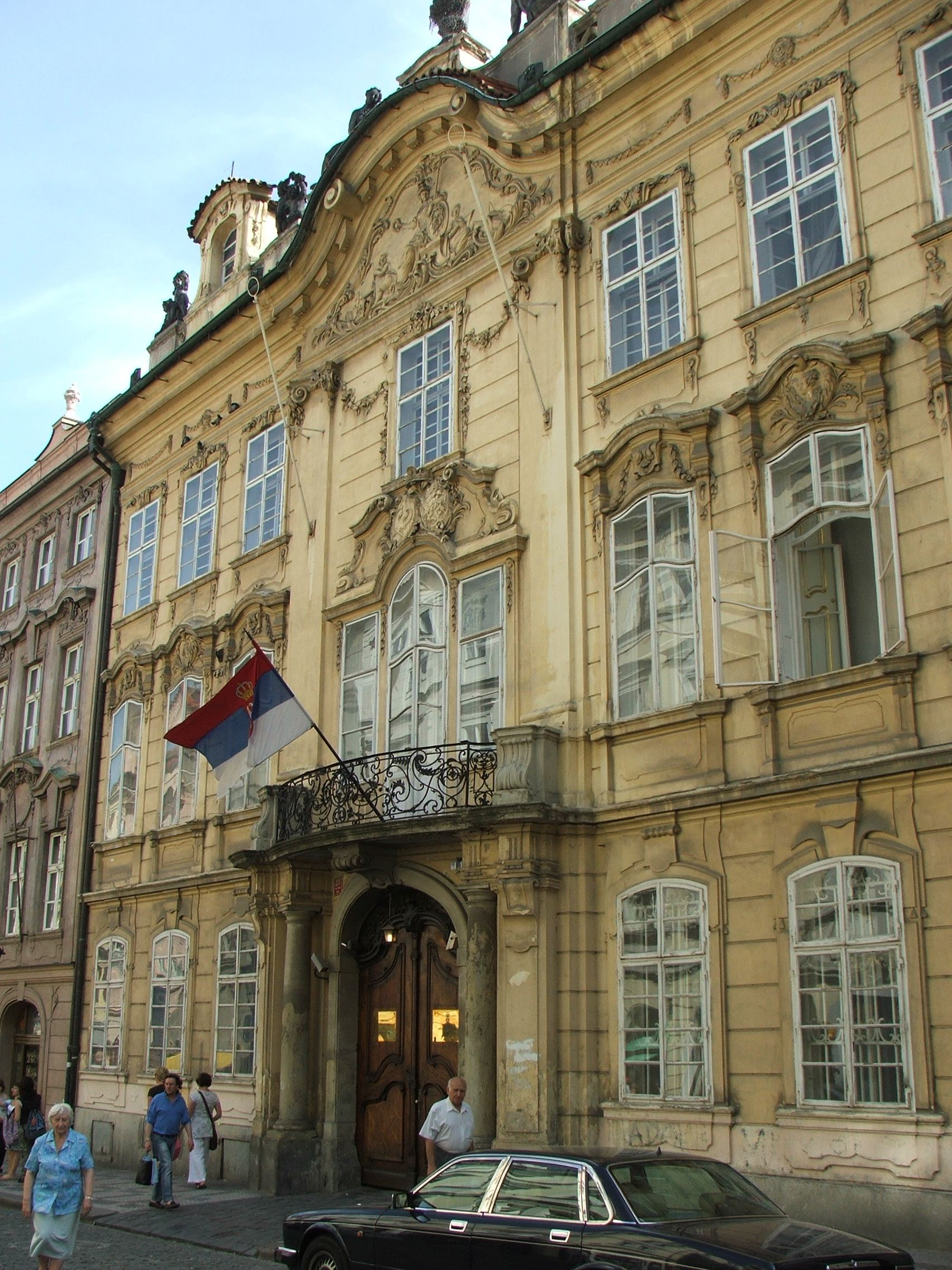 Kaunic Palace - Embassy of Serbia in Prague - Malá Strana, Czechia